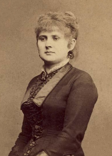 Nestor Heck - Veronica Micle (1850-1889), Iaşi, owner: National Library of Romania.